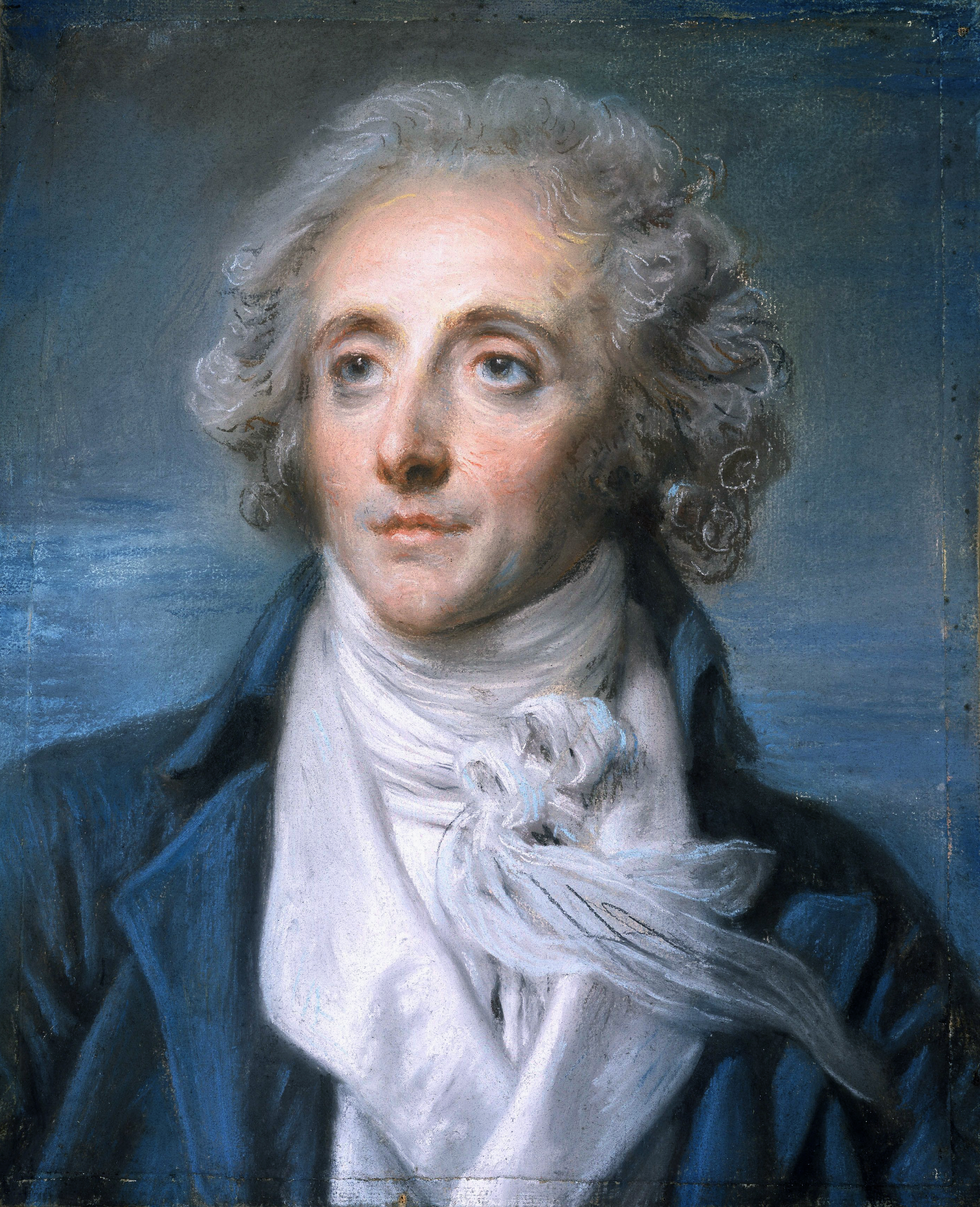 Portrait of Nicolas-Pierre-Baptiste Anselme, called Baptiste aîné